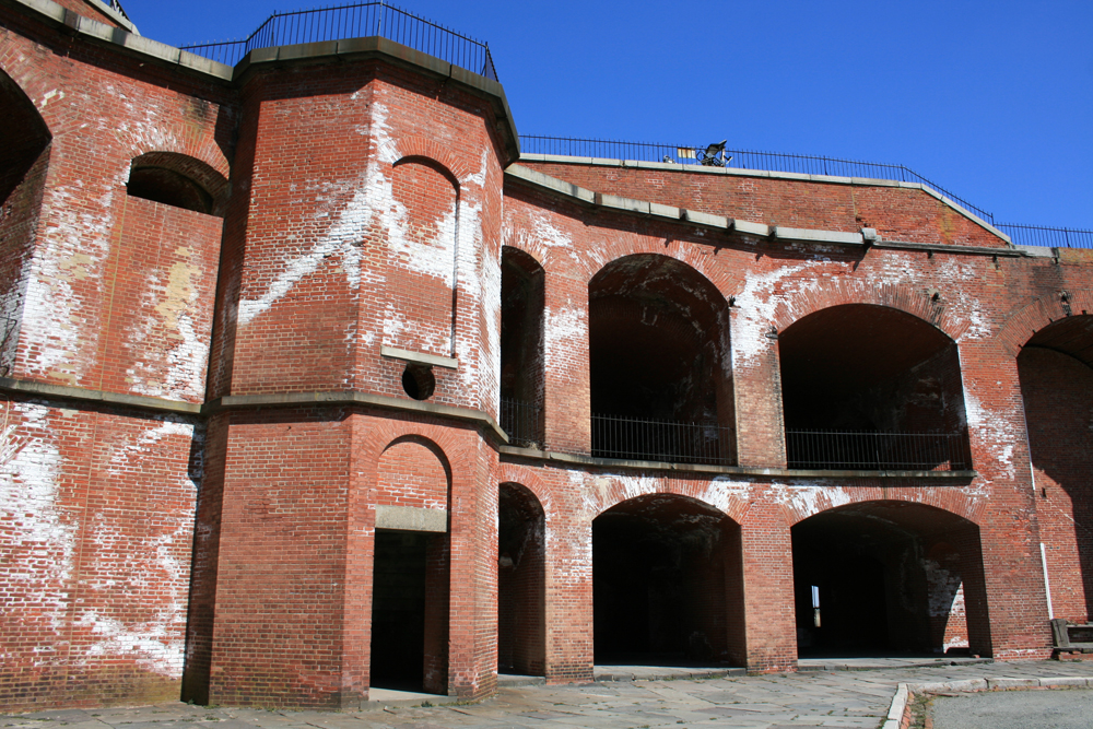 Circular brick stairwell and casemates inside Fort Delaware. Photograph by Brendan Mackie.